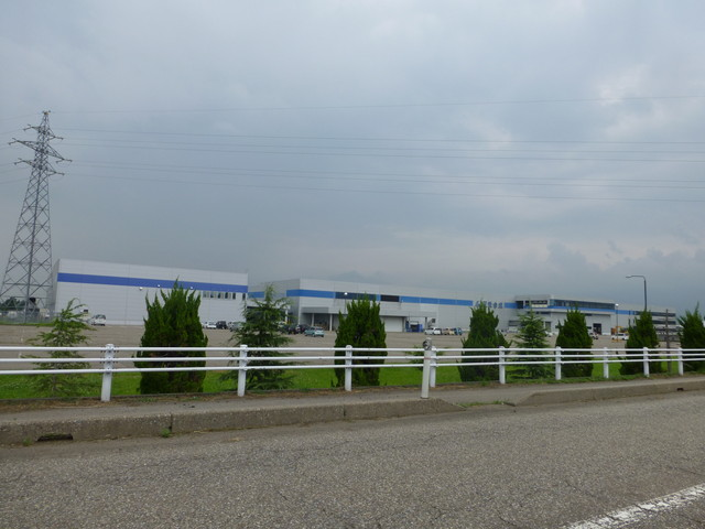 The head office of Sanko Gosei Ltd. in Nanto, Toyama, Japan